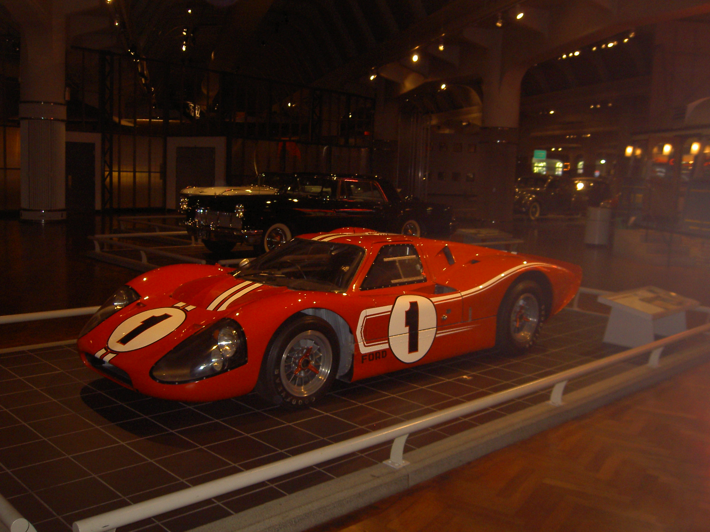 Ford GT40 Mk IV